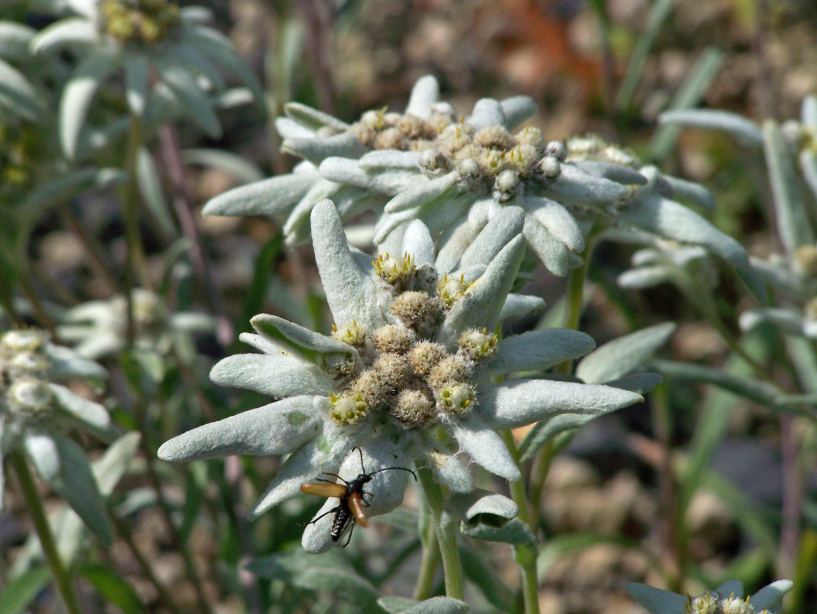 Species: Leontopodium palibinianum Beauverd Common name: Siberian Edelweiss. Distribution: Siberia, Mongolia.